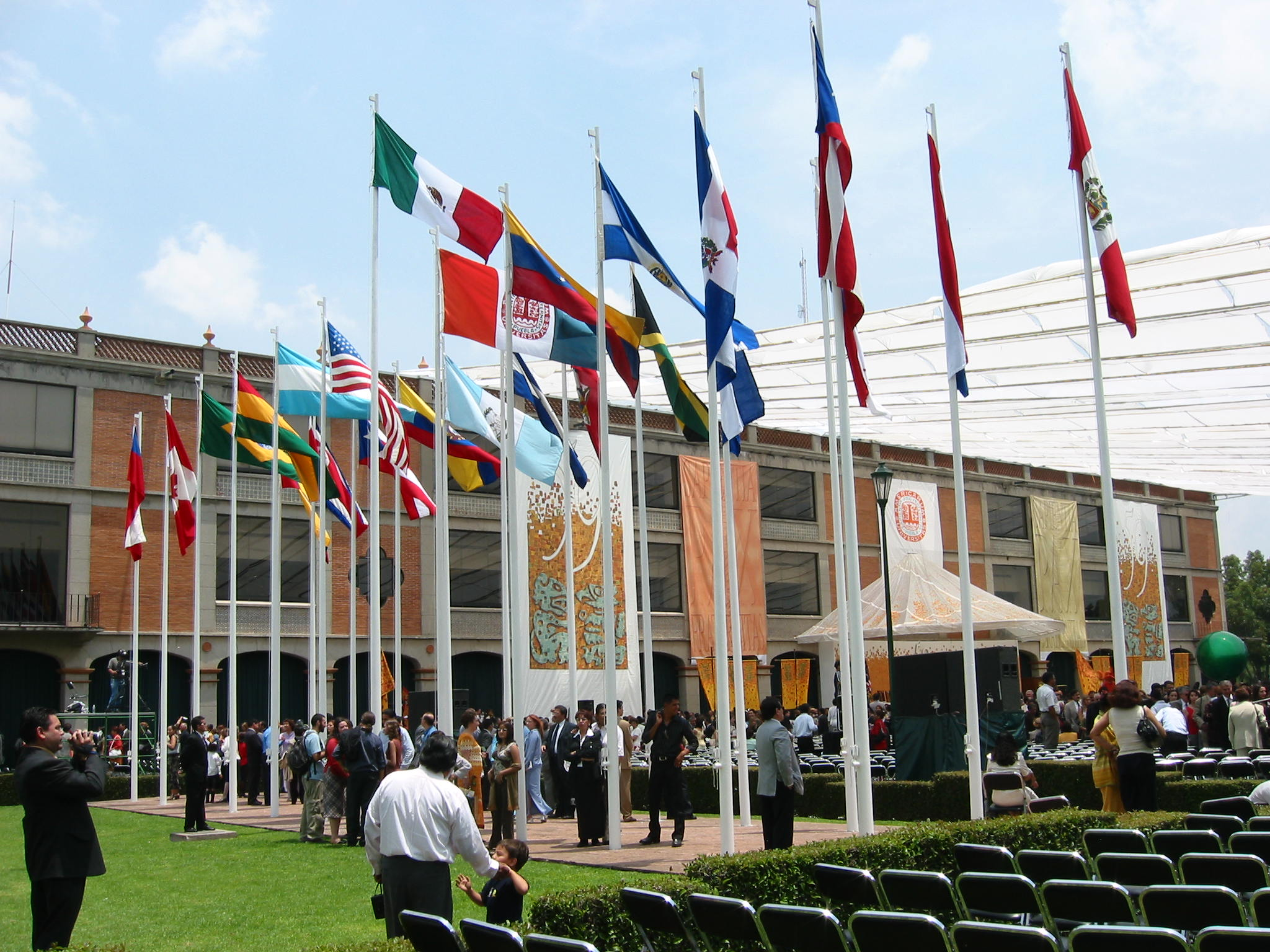 Universidad de las Américas, Puebla Library, Graduation Ceremony 2003 Picture taken by Jose Alonso on June 2003